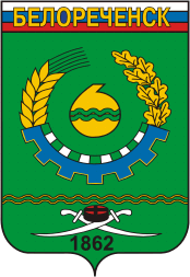 Belorechensk (Krasnodar krai), coat of arms (1970s)